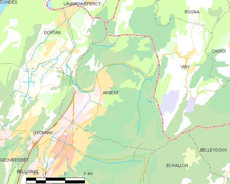 Map of French commune: Arbent Map commune FR insee code 01014.png